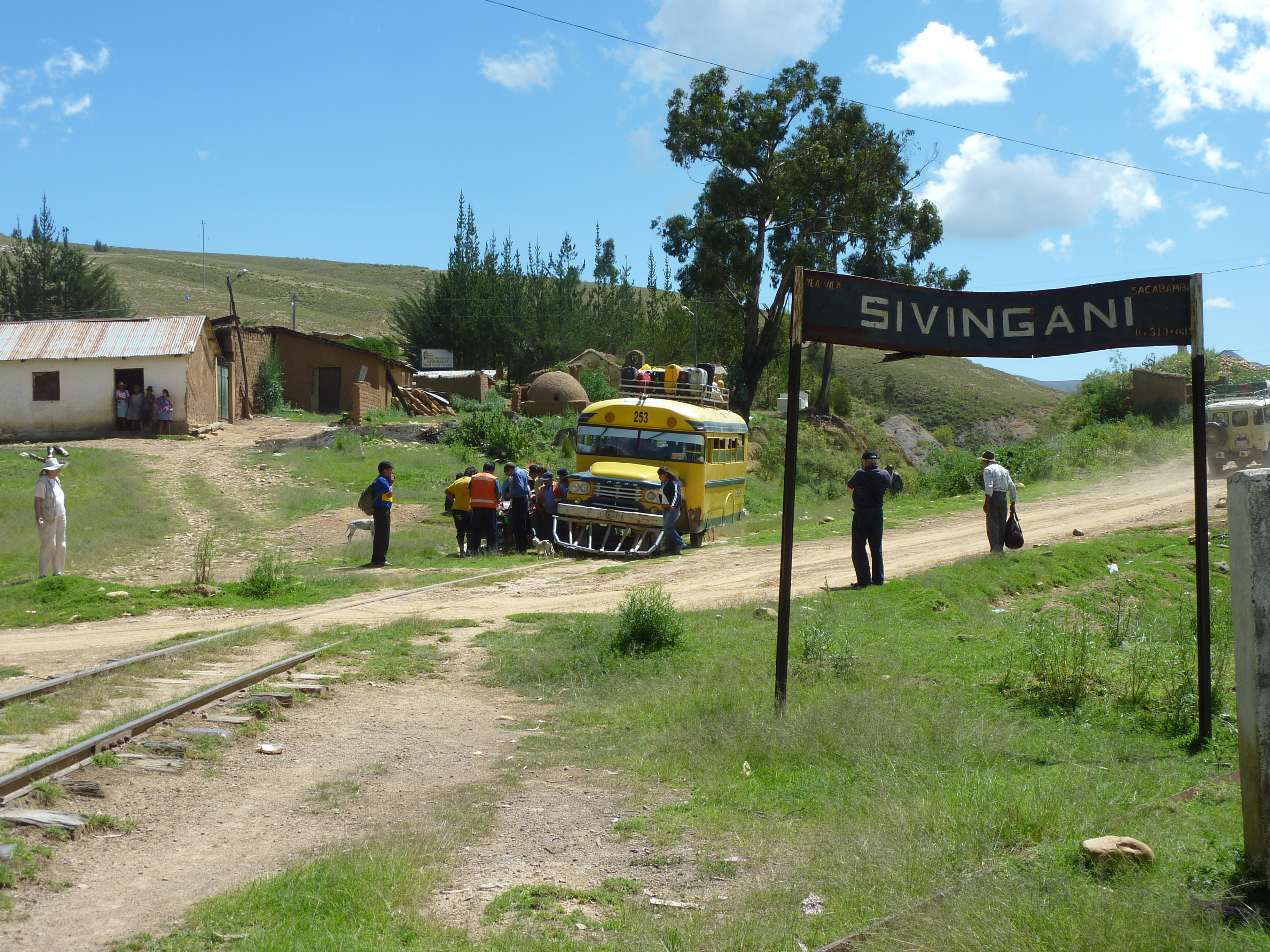 Railway station Sivingani in Bolivia